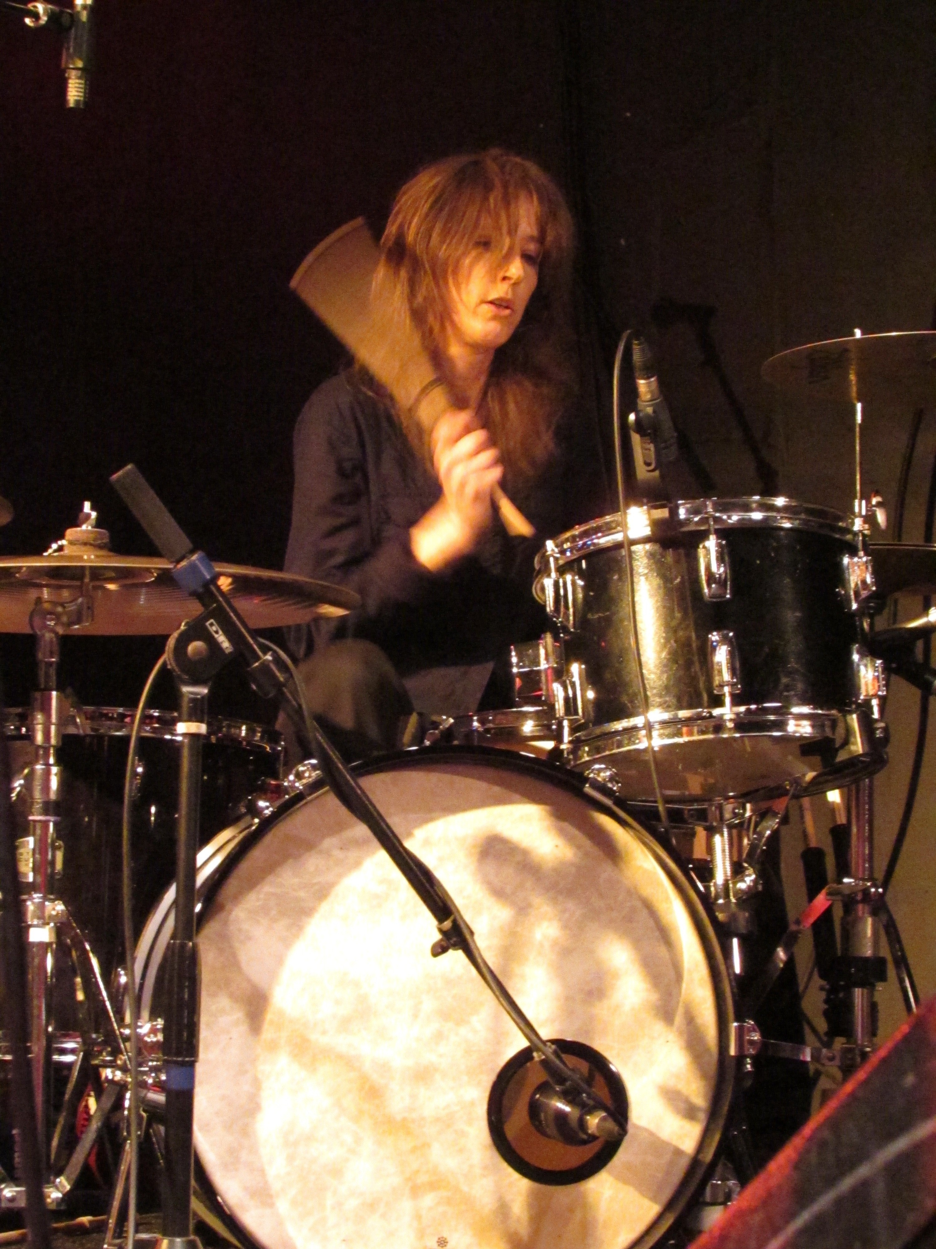 Sara Romweber playing drums in reunion performance of Let's Active, at Cat's Cradle, Chapel Hill, NC, on August 9, 2014.